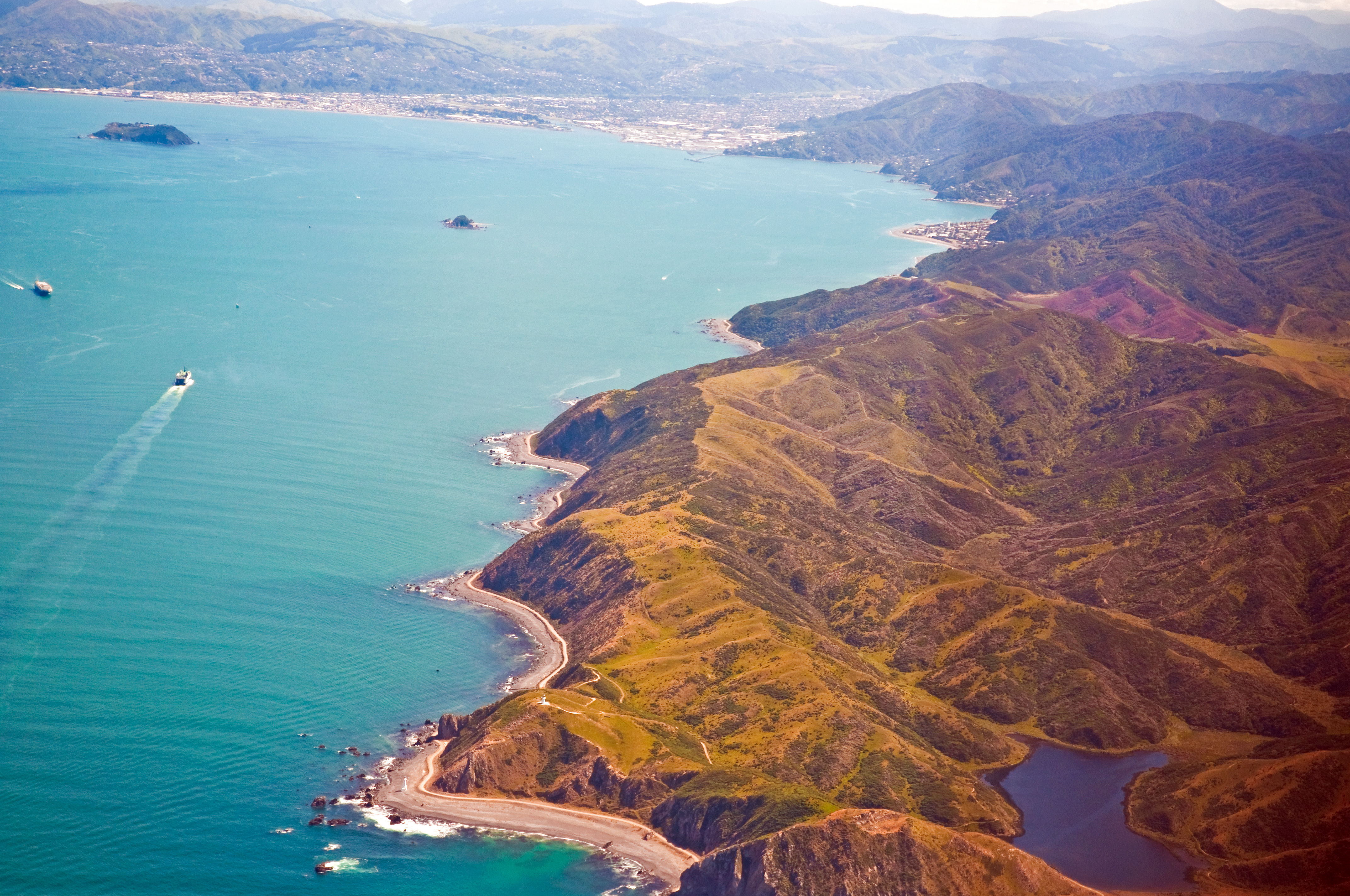 From an Eagle Airways Beech 1900D departing for Whangarei